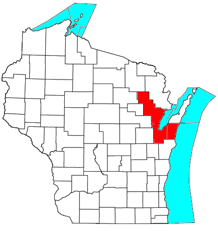 Locator map of the Green Bay Metropolitan Statistical Area in the northeastern part of the U.S. state of Wisconsin.